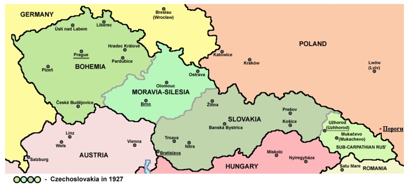 point Porohy on middlewars map